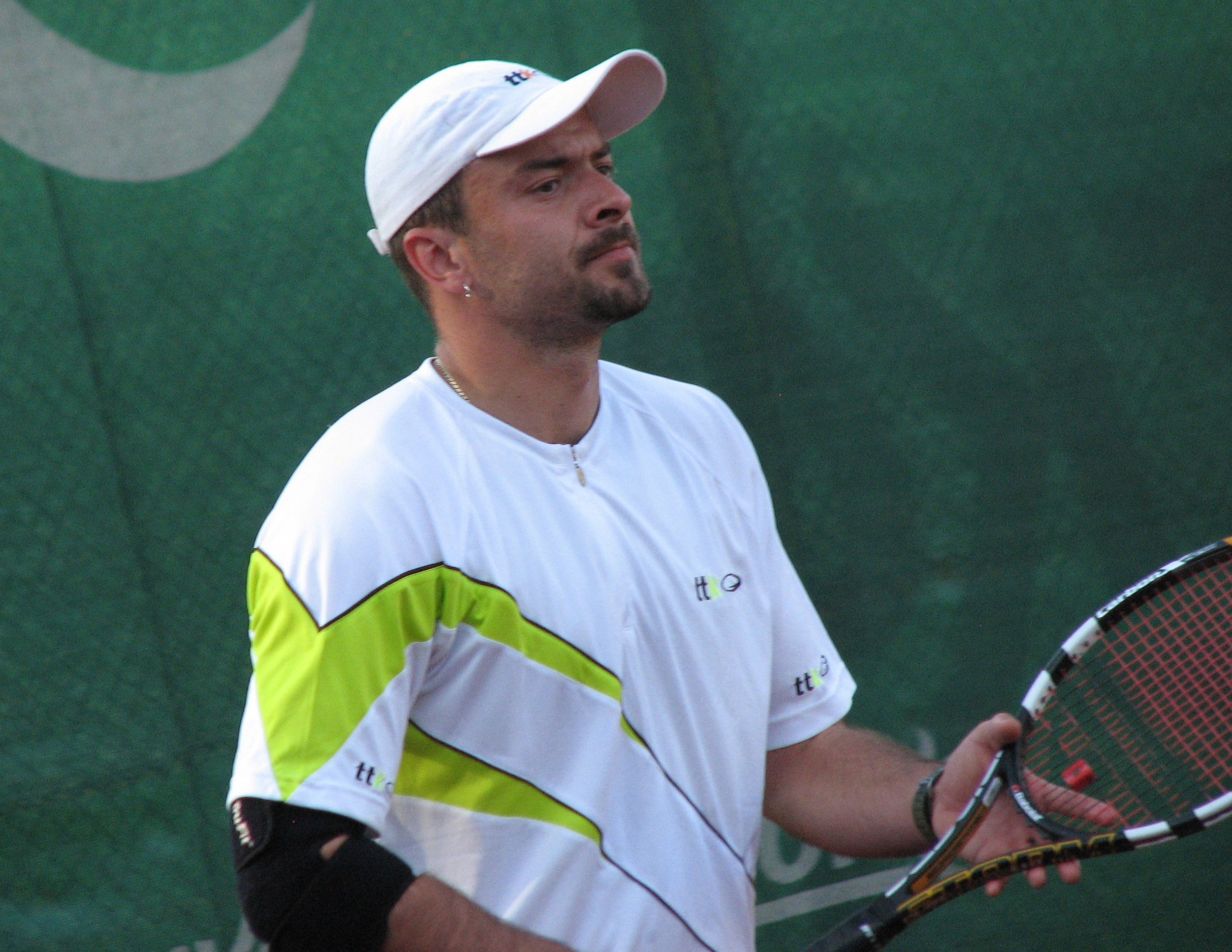 Ivaylo Traykov (Zagorka tennis kup 2009)